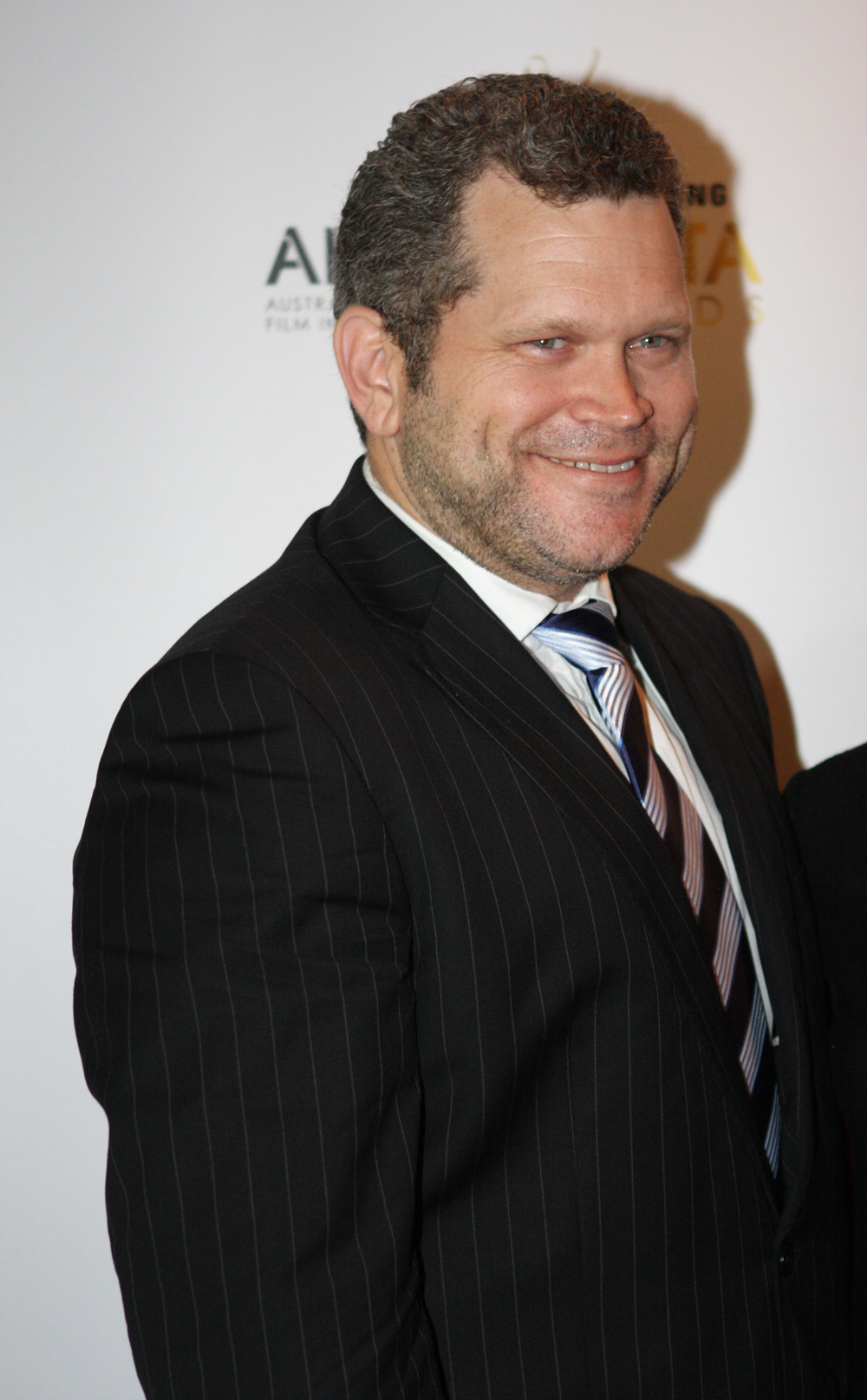 John Batchelor, AACTA Awards